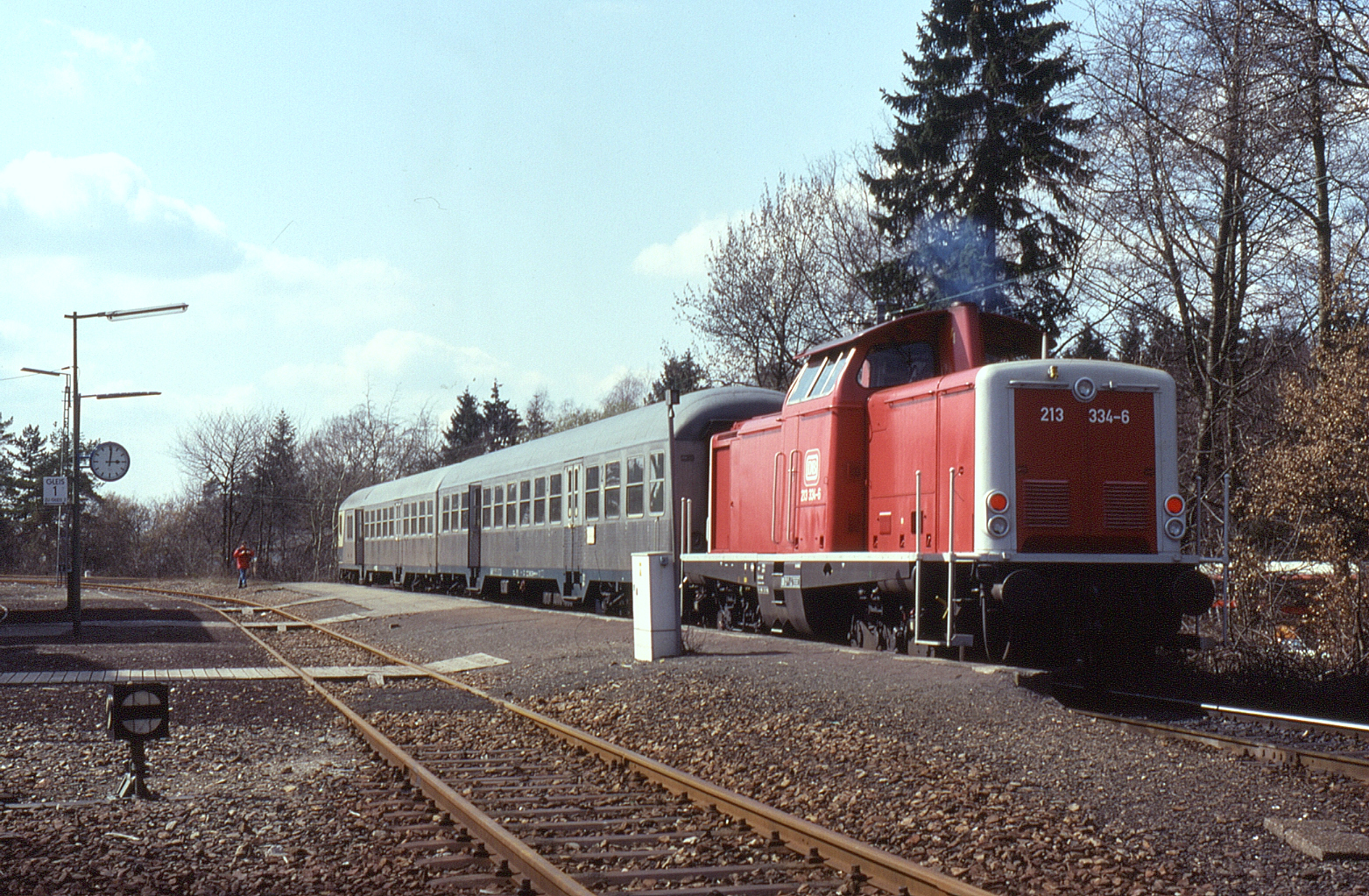 The branch from Boppard (on the Rhine valley) to Emmelhausen known as the Hunsrückbahn is the steepest non-adhesion line in Germany. At the time of this visit in 1993, trains were worked in push-pull format with class 213 locomotives which were re-geared from class 212s to work this and other lines in the area. Seen on 28 March 1993, 213.334 is ready to work train 7584, 15:13 Emmelshausen to Boppard. The 15km long line used to continue through to Simmern. The operation was moved from Deutsche Bahn to Rhenus Veniro in 2011.